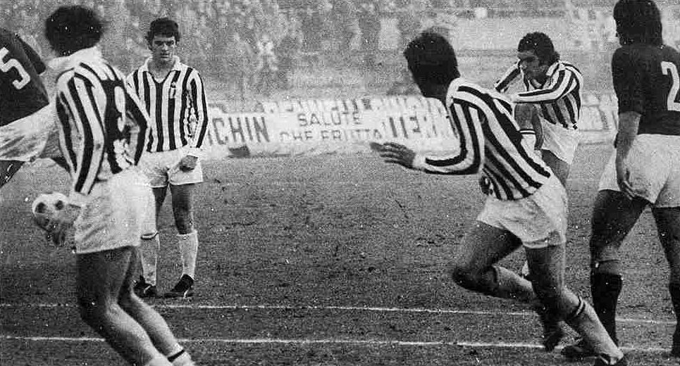 Turin (Italy), Communal Stadium, January 13, 1974. Juventus F.C. — A.S. Roma 2-1, Matchday 13 of the Italian League 1973–74 Serie A: Juventus' jolly Antonello Cuccureddu (secondo from right) scores at 72' from a free kick the winning goal for his team.